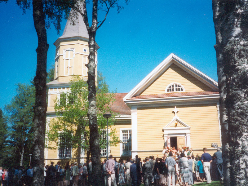 Lavia Church, Lavia, Finland. Completed in 1823. Architect: Charles Bassi.